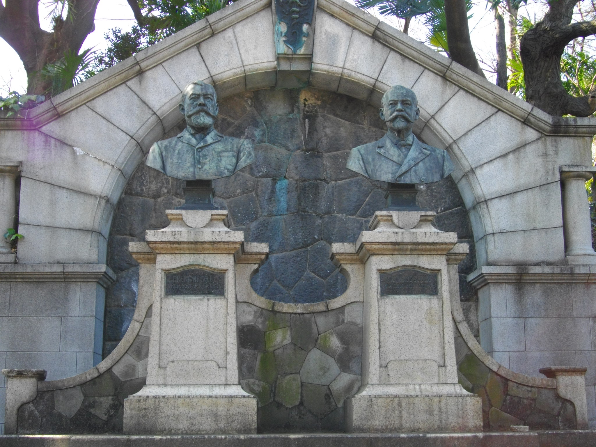 Busts of Erwin von Baelz and Julius Karl Scriba